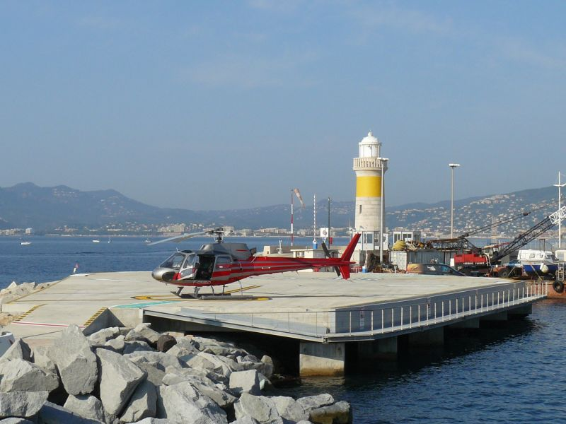 Helicopter station in Cannes, France